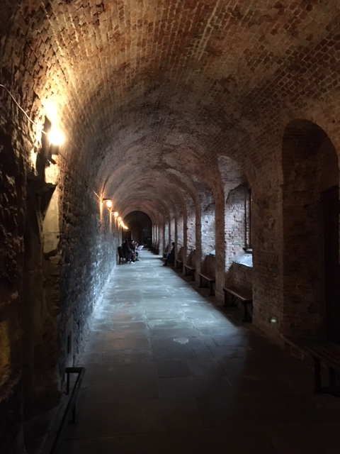 Cloister - Charterhouse Square